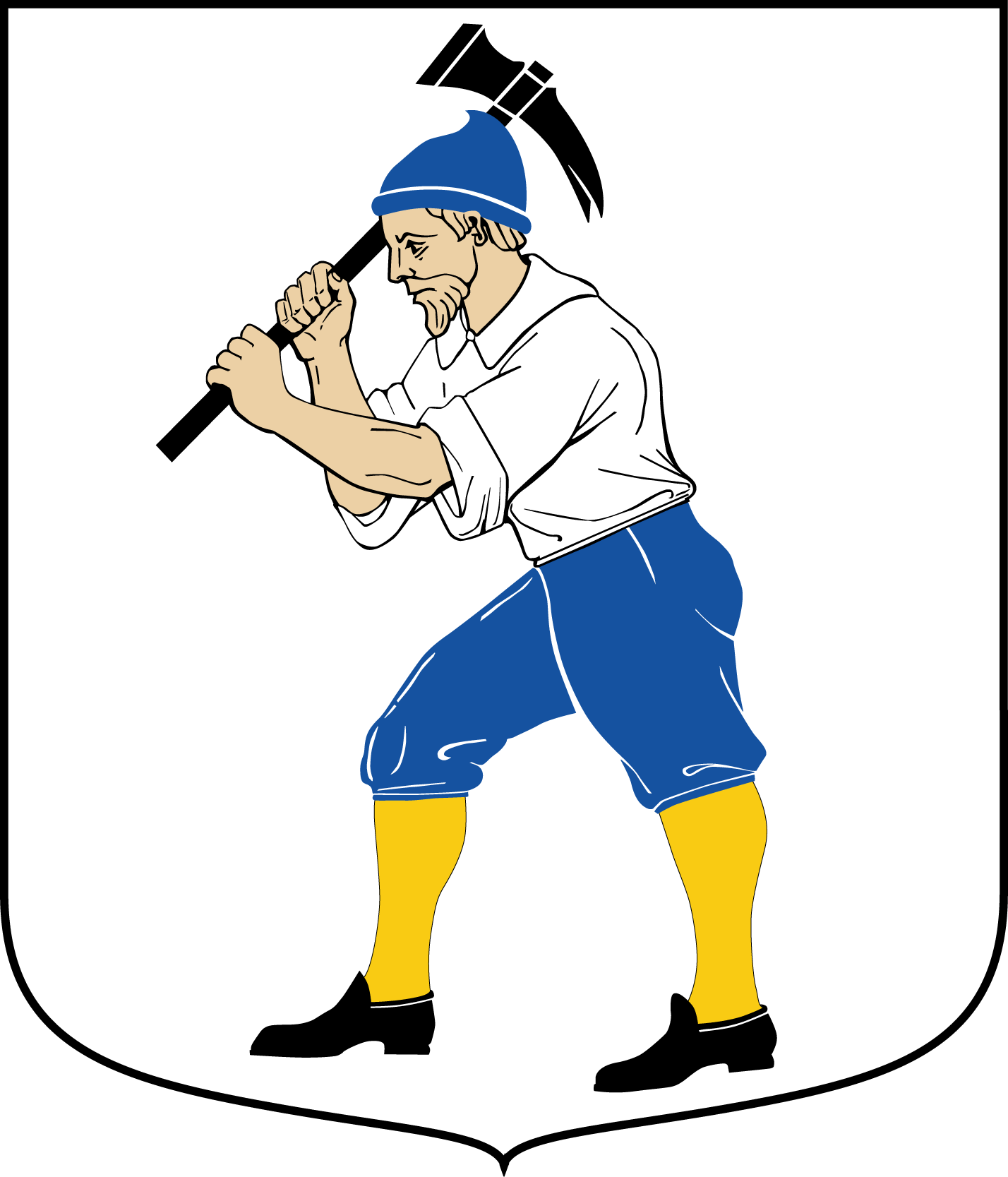 Coat of arms of the municipality of Askersund, Sweden. Painted by Vladimir A. Sagerlund when he was the heraldic artist at the National Archives of Sweden (Riksarkivet). This representation of a coat of arms is potentially different from the one used by the armiger (municipality or organisation) in question. = ⇑“Sable, a lionrampant or” This coat of arms was drawn based on its blazon which – being a written description – is free from copyright. Any illustration conforming with the blazon of the arms is considered to be heraldically correct. Thus several different artistic interpretations of the same coat of arms can exist. The design officially used by the armiger is likely protected by copyright, in which case it cannot be used here.Individual representations of a coat of arms, drawn from a blazon, may have a copyright belonging to the artist, but are not necessarily derivative works. Further information: Commons:Coats of arms and Template:Coa blazon